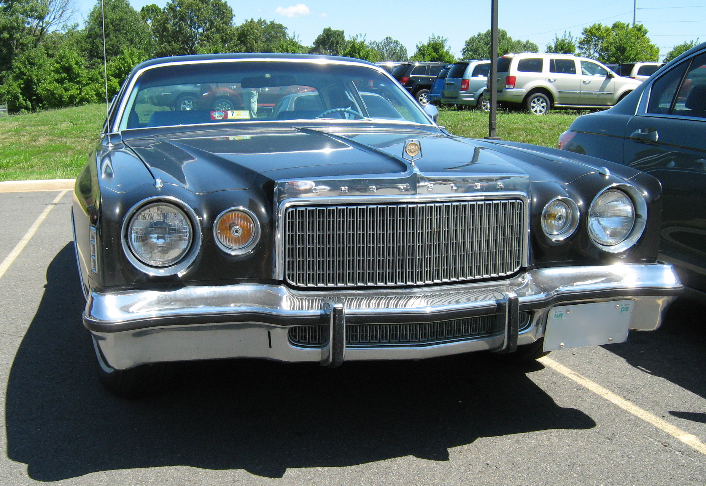 Chrysler Cordoba blue, front